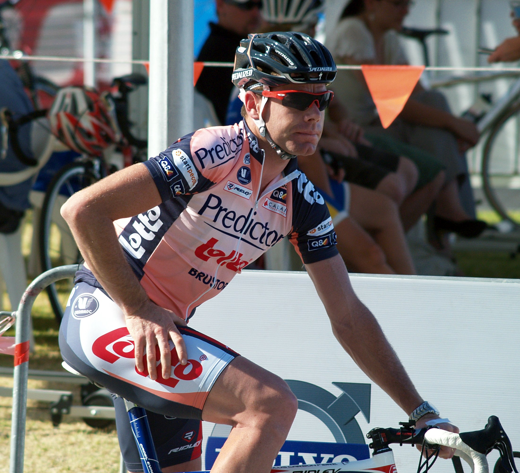 Australian cyclist Cadel Evans (Predictor-Lotto) prior to Stage 3 of the 2008 Bay Cycling Classic, Ritchie Boulevard, Geelong, Australia.